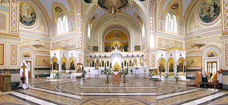 Владимирский собор в Херсонесе. Центральный иконостас. Фото с сайта художников